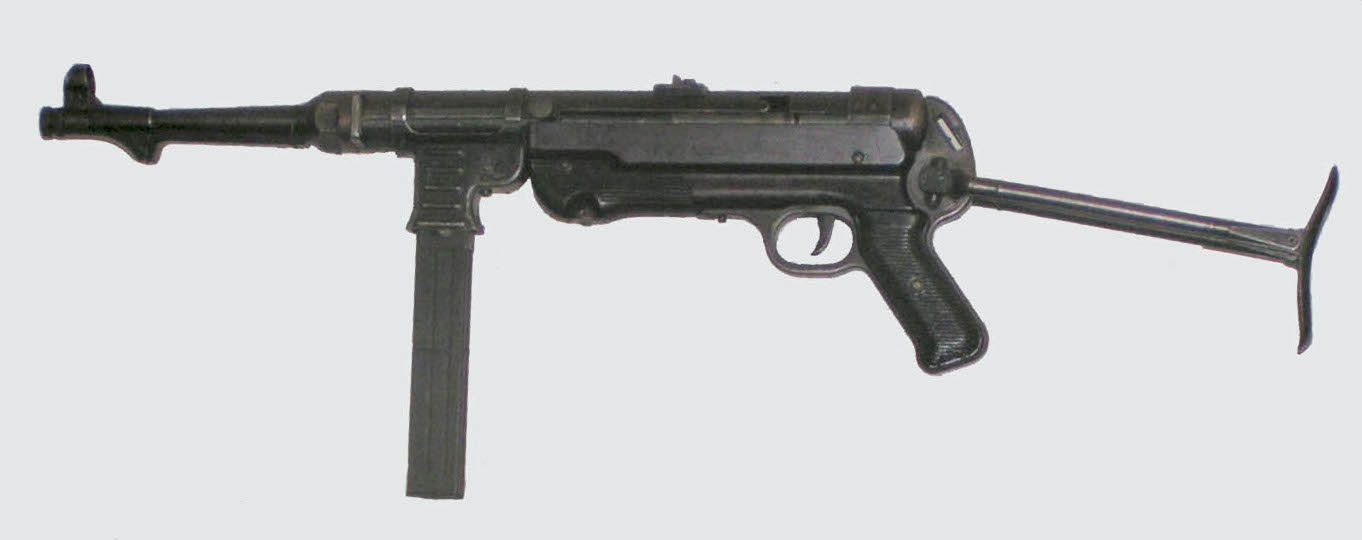 German submachine gun MP40.